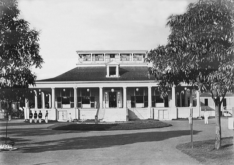 Original Hale Ali'i, on the site of what is now known as 'Iolani Palace. Home of King Kamehameha IV and Queen Emma.